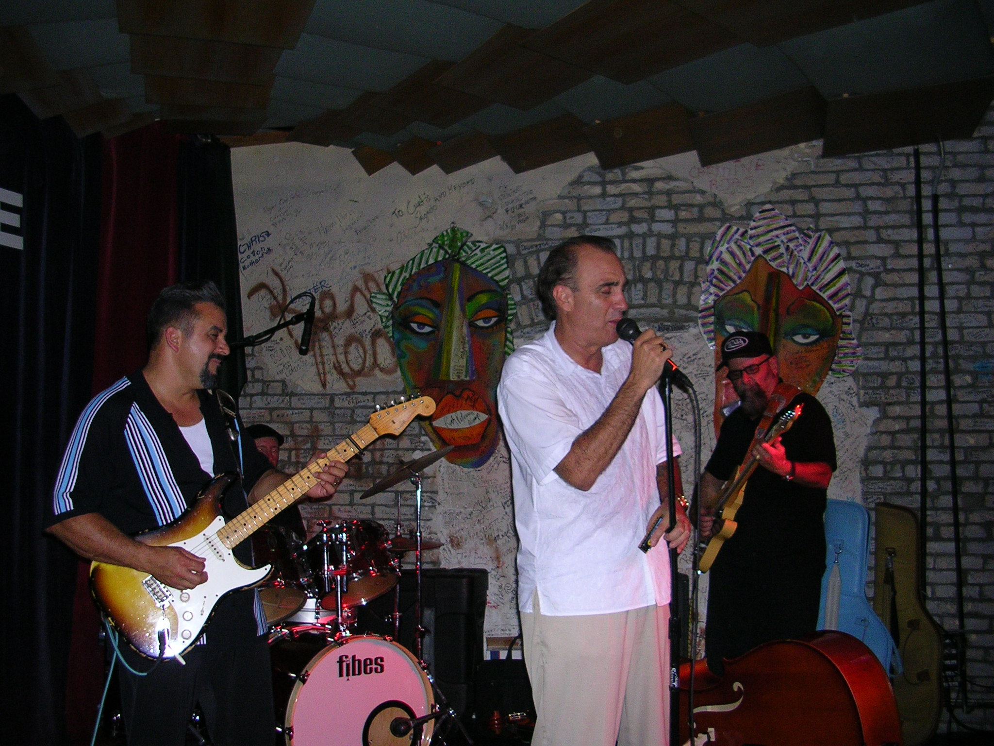 Lynwood Slim (vo., harp) with Larry Taylor (b.), Kid Ramos (gt.) and Richard Innes (ds.) at Cafe Boogaloo, Hermosa Beach, California